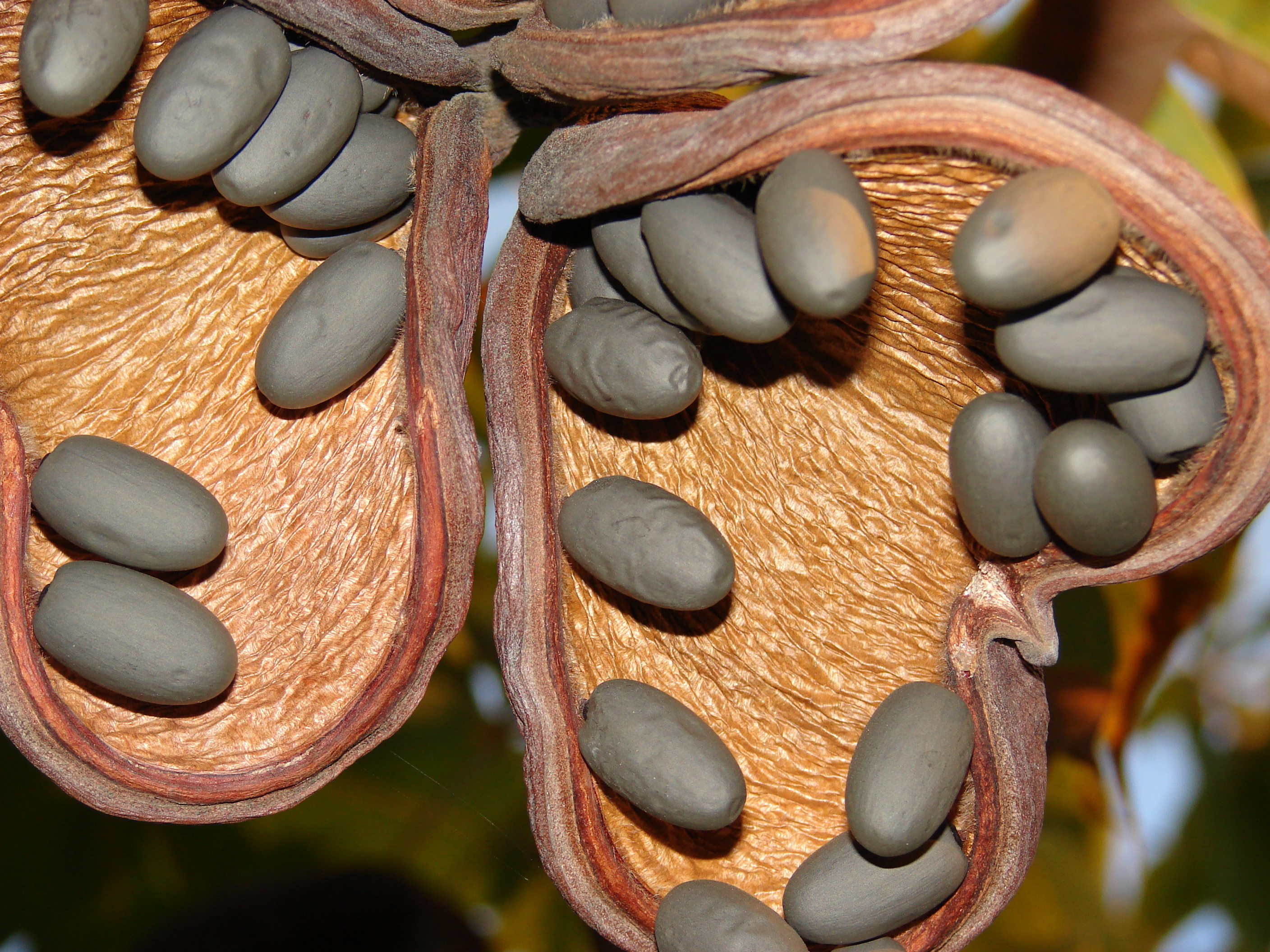 Sterculia foetida (fruit). Location: Oahu, Ala Moana Beach Park